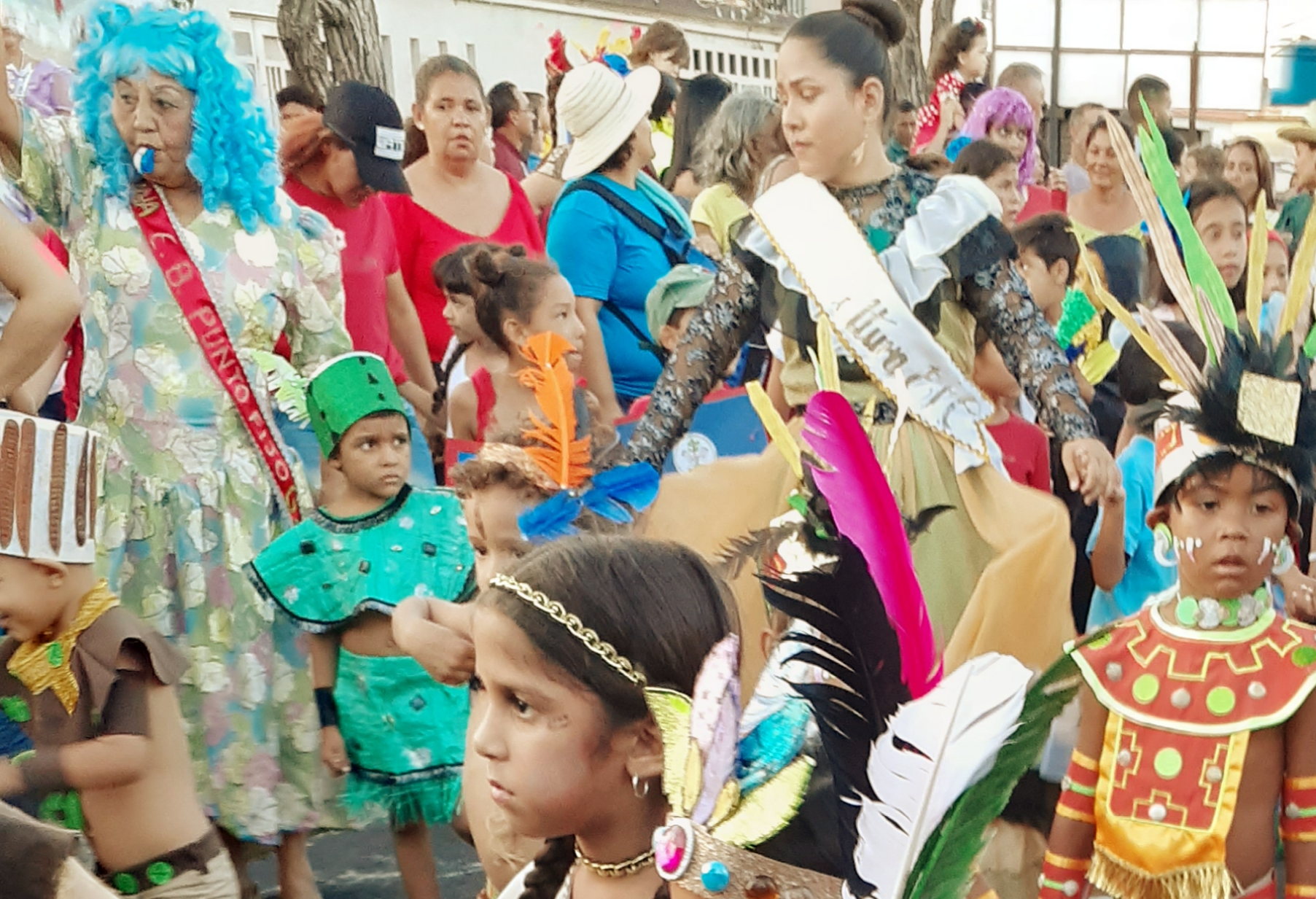 cultural parade with indigenous themes in the carnivals 2020 of Punto Fi, Venezuela.